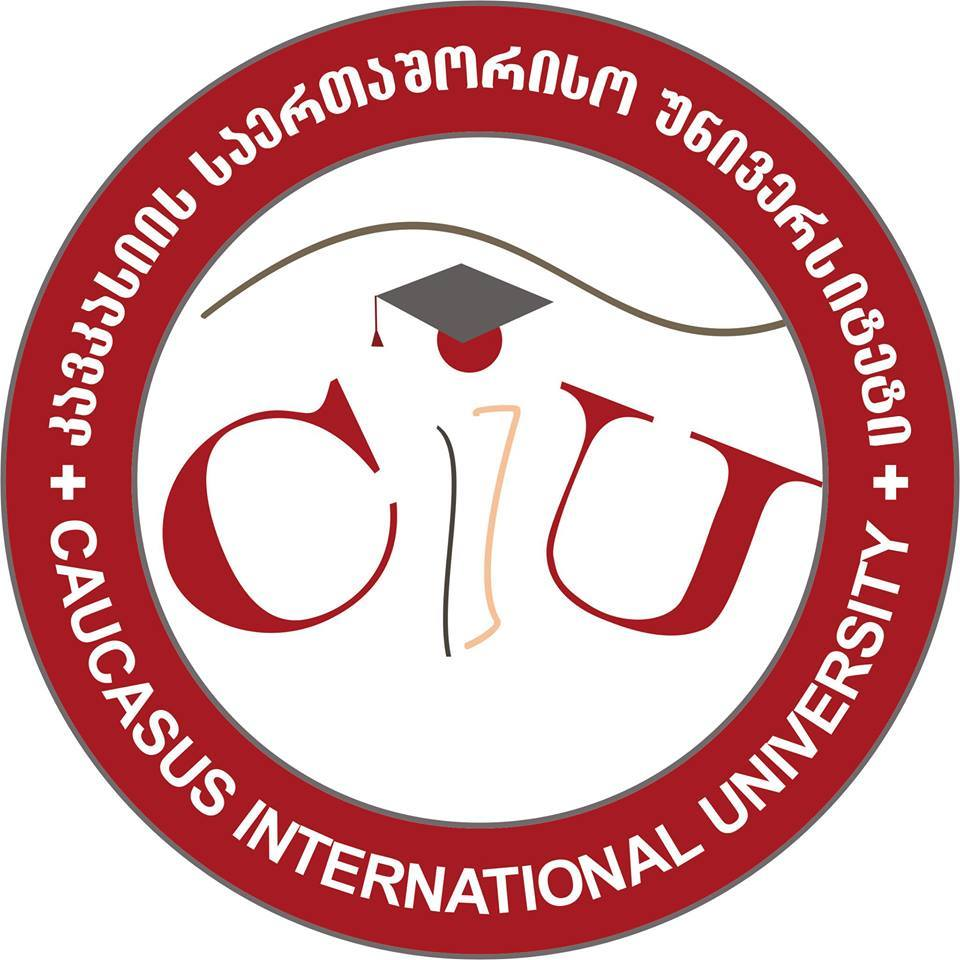 The logo of Caucasus International University